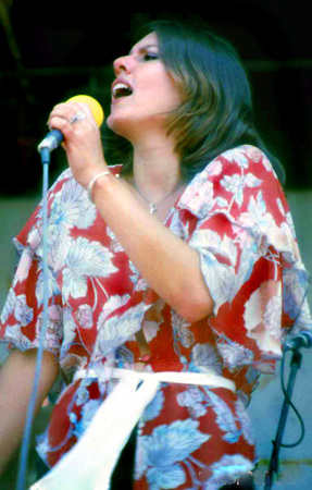 New Zealand singer Beaver, photo was taken at the 1979 3 day Nambassa festival - Image (photograph) taken by Official Nambassa Photographer and uploaded by Mombas